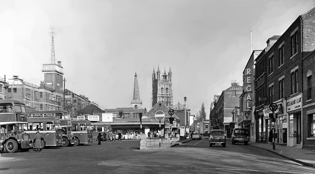 Gloucester 50 years ago. Near to Gloucester, Gloucestershire, Great Britain. Approximately NW view up St Aldate Street from Station Road to Cathedral: area radically redeveloped subsequently